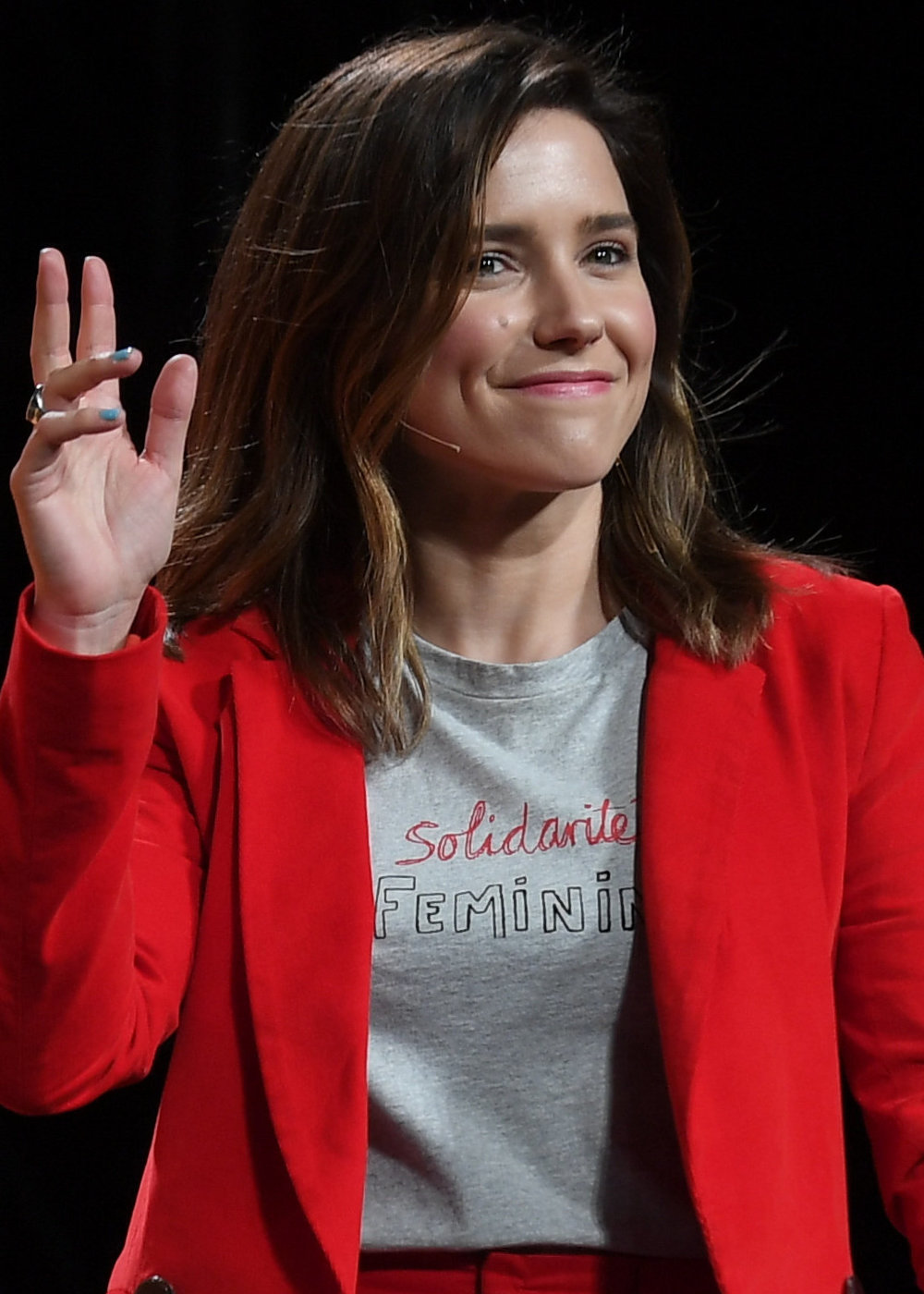 4 May 2017; Alysia Reiner, right Actress&Activist, Alysia Reiner, and Sophia Bush, Actress/Activist, The Girl Project, prepare to speak on the Center Stage at Collision 2017 in New Orleans, Louisiana. Photo by Stephen McCarthy / Collision / Sportsfile